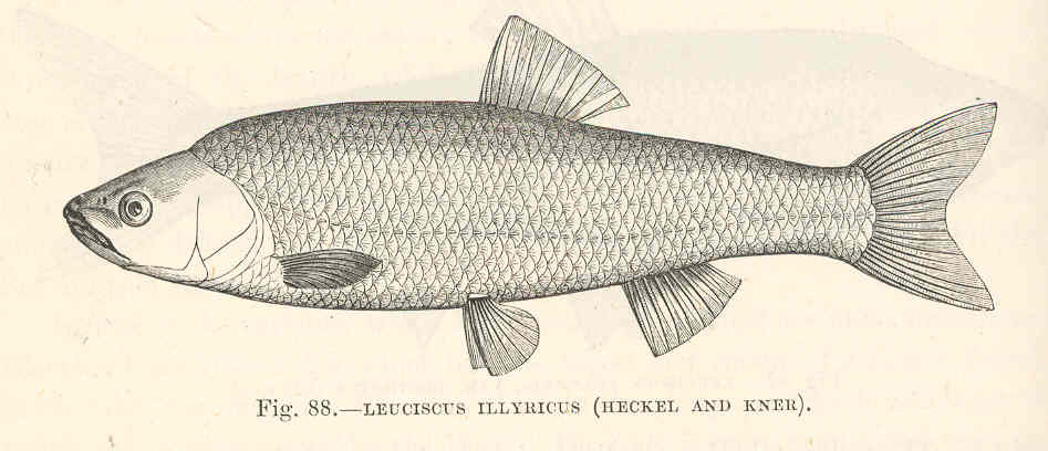 Leuciscus illyricus (Heckel and Kner) Subject: Cyprinidae, Leuciscus Tag: Fish